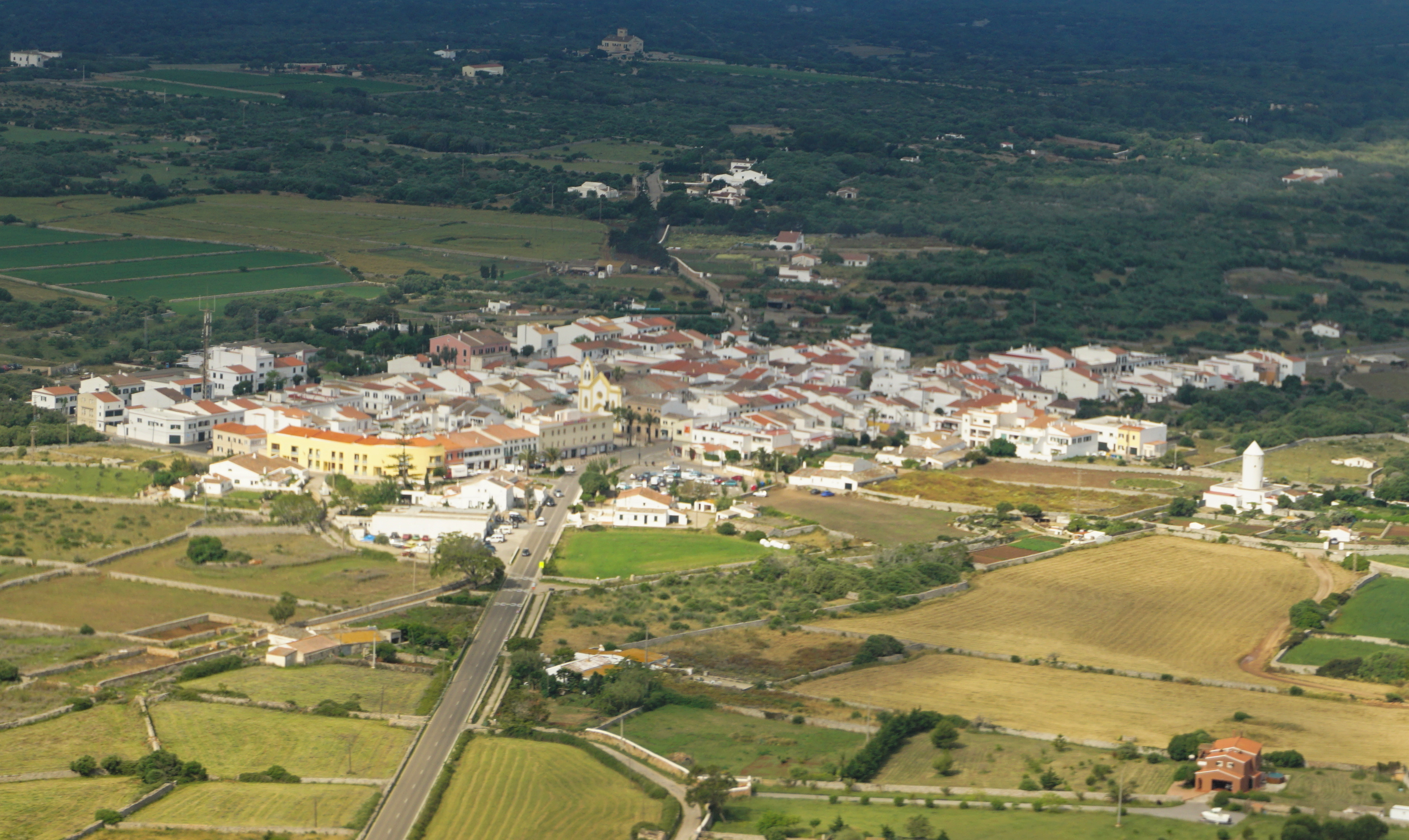 Sant Climent, municipality of Maó, Menorca.